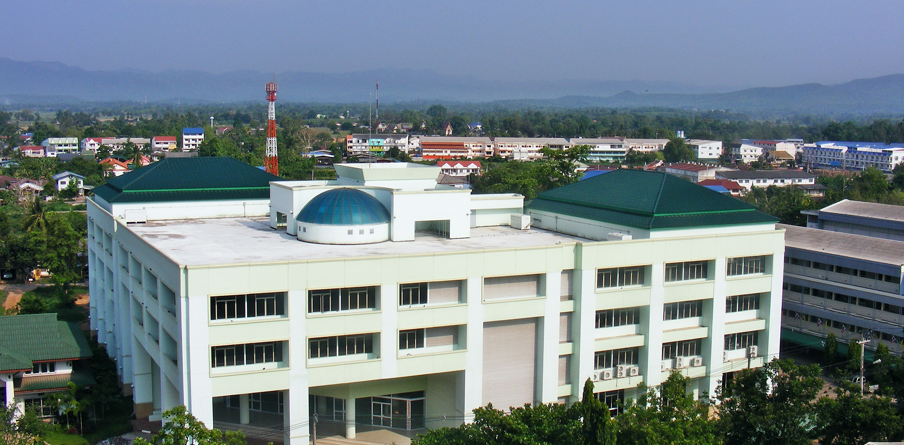 Uttaradit Rajabhat University Location: Uttaradit Rajabhat University Mueang Uttaradit, Uttaradit Province, Thailand.